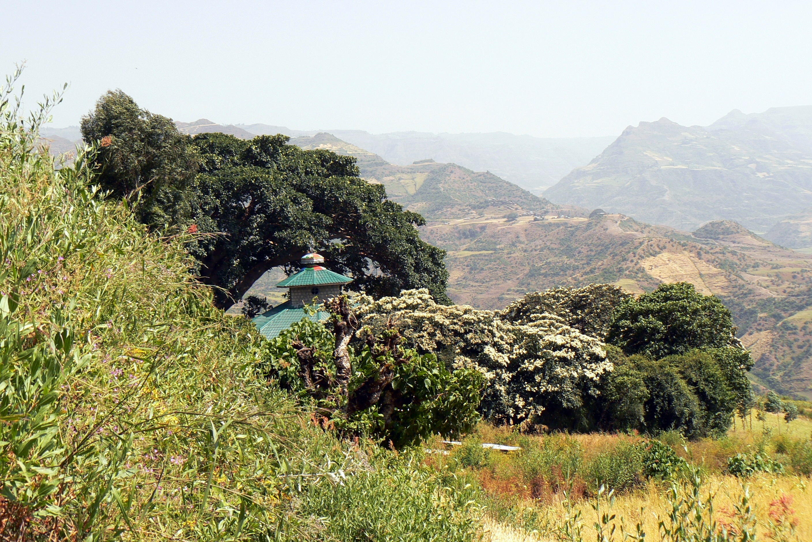 The Wanza trees are in flower in mid-October. The church in the Bulga mountains